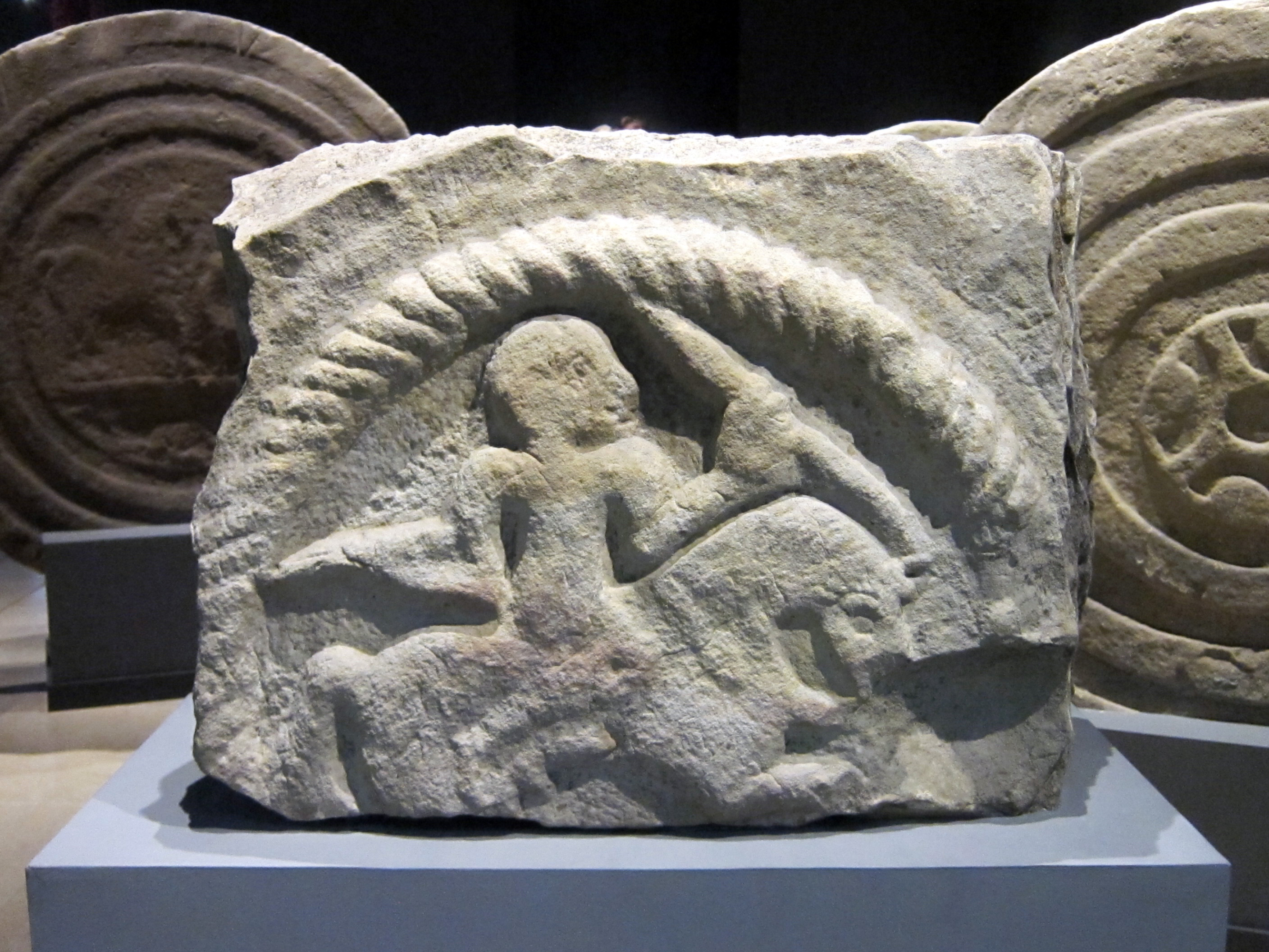 Museum of Prehistory and Archaeology of Cantabria. Obverse of the stele from San Vicente de Toranzo (Cantabria).